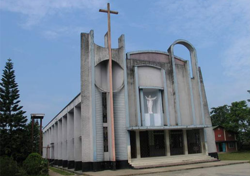 Church at don bosco tinsukia